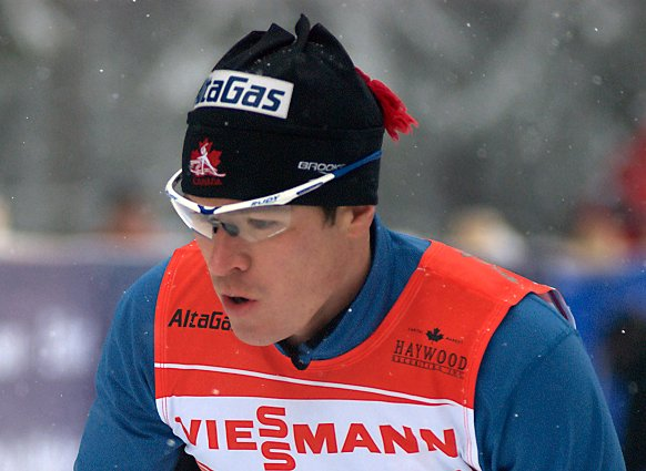 George Grey at the Tour de Ski 2010 in Oberhof